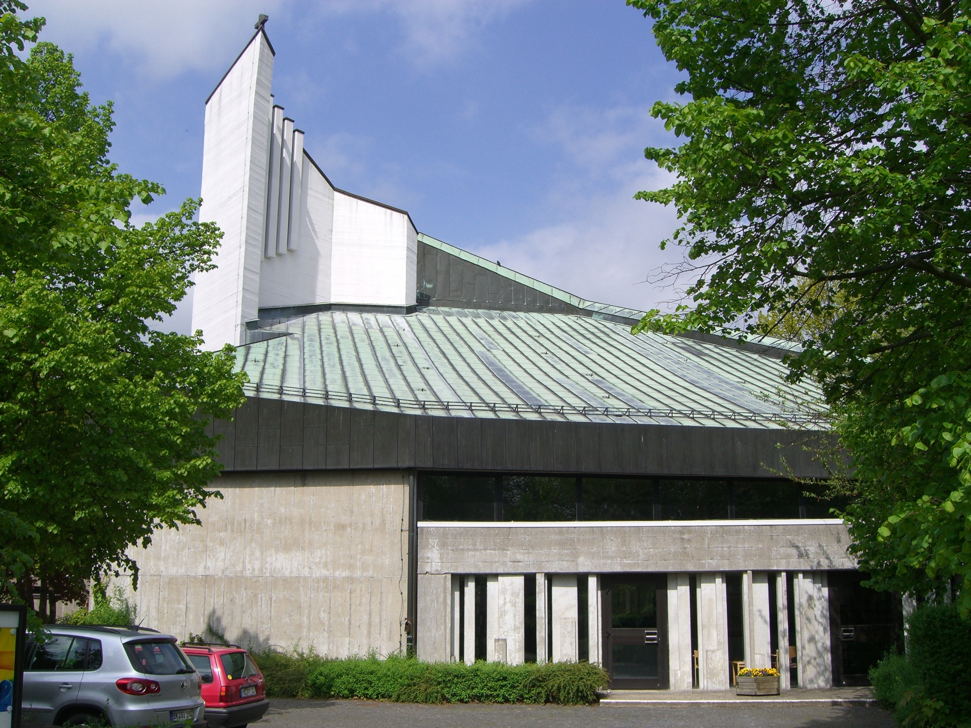 Evangelical-lutheran church "Saint Thomas" (St. Thomas) in Helmstedt.